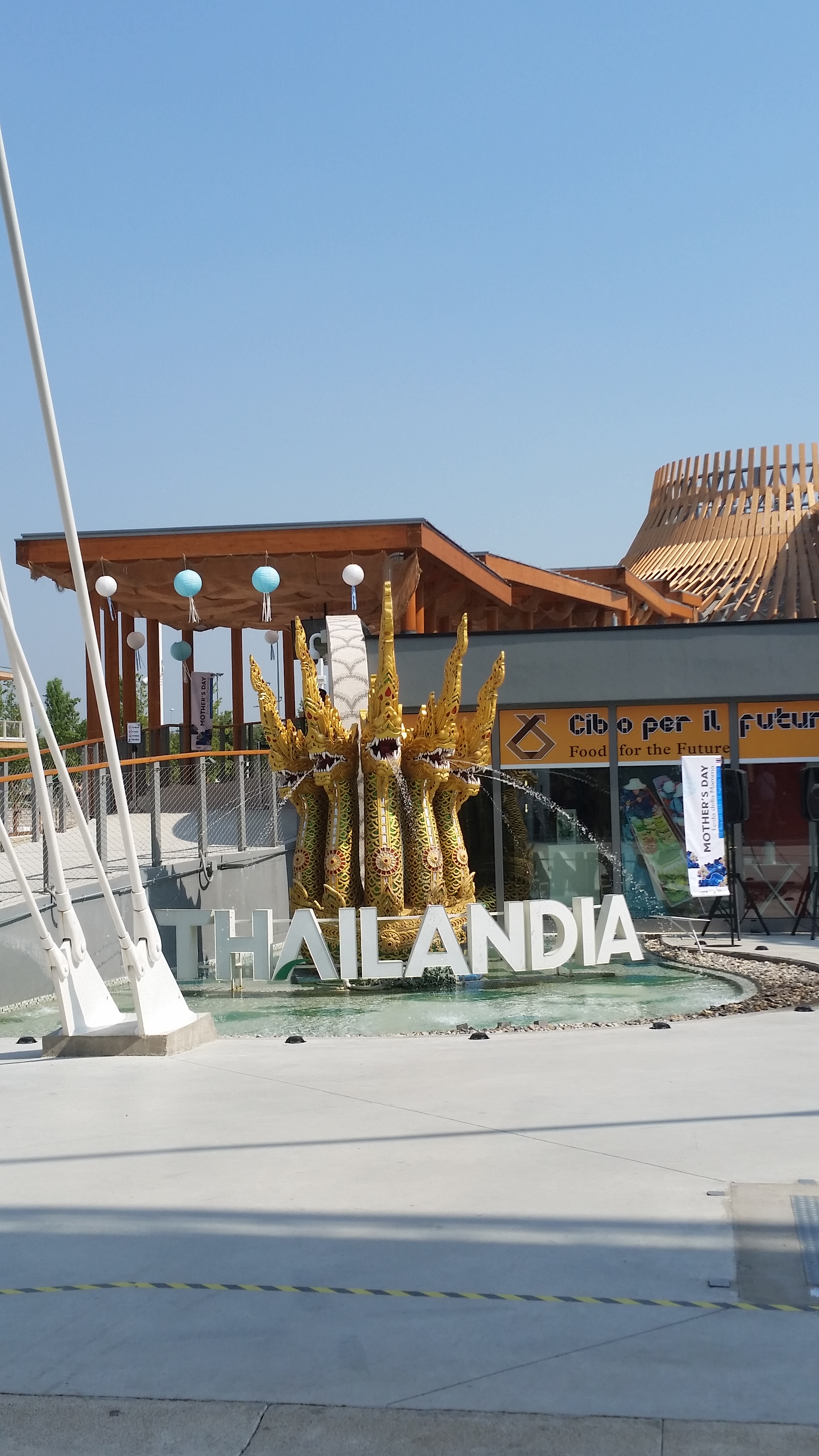 Pavilion of the Expo 2015 located in Milano (Italy)